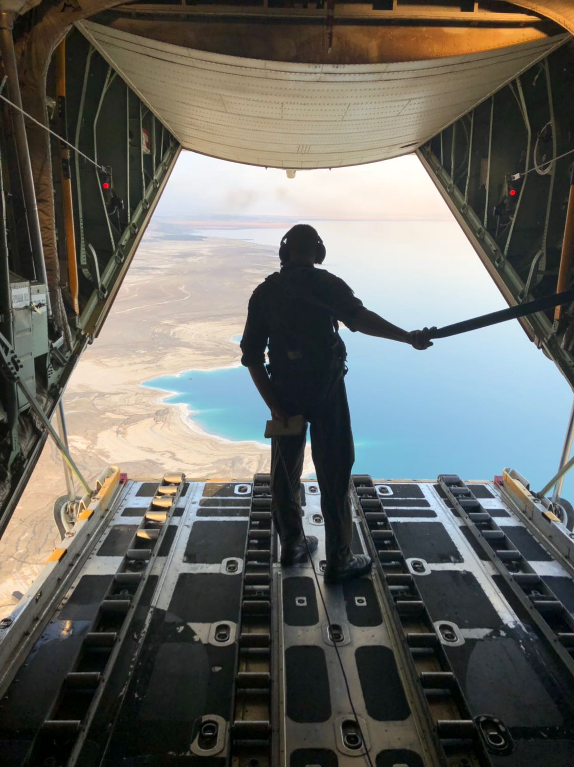 דלתות פתוחות בזמן טיסה בקרנף